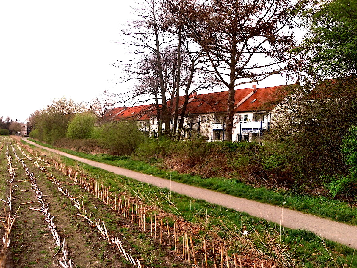 Tourcoing Street in Bottrop-Eigen (Germany), in honor of the city of Tourcoing in France.